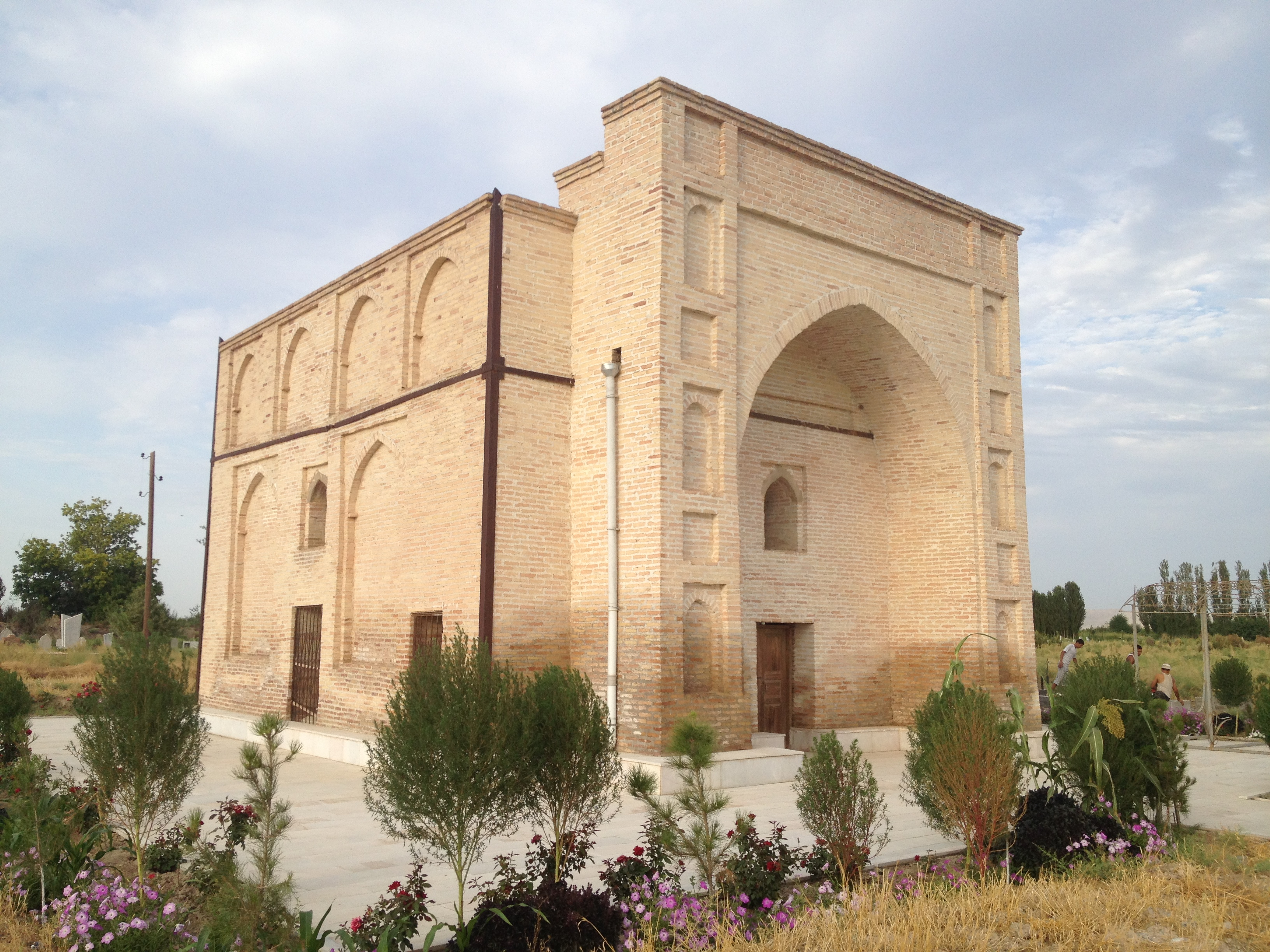 Kyzyl Mazar mausoleum (near Bekabad town)